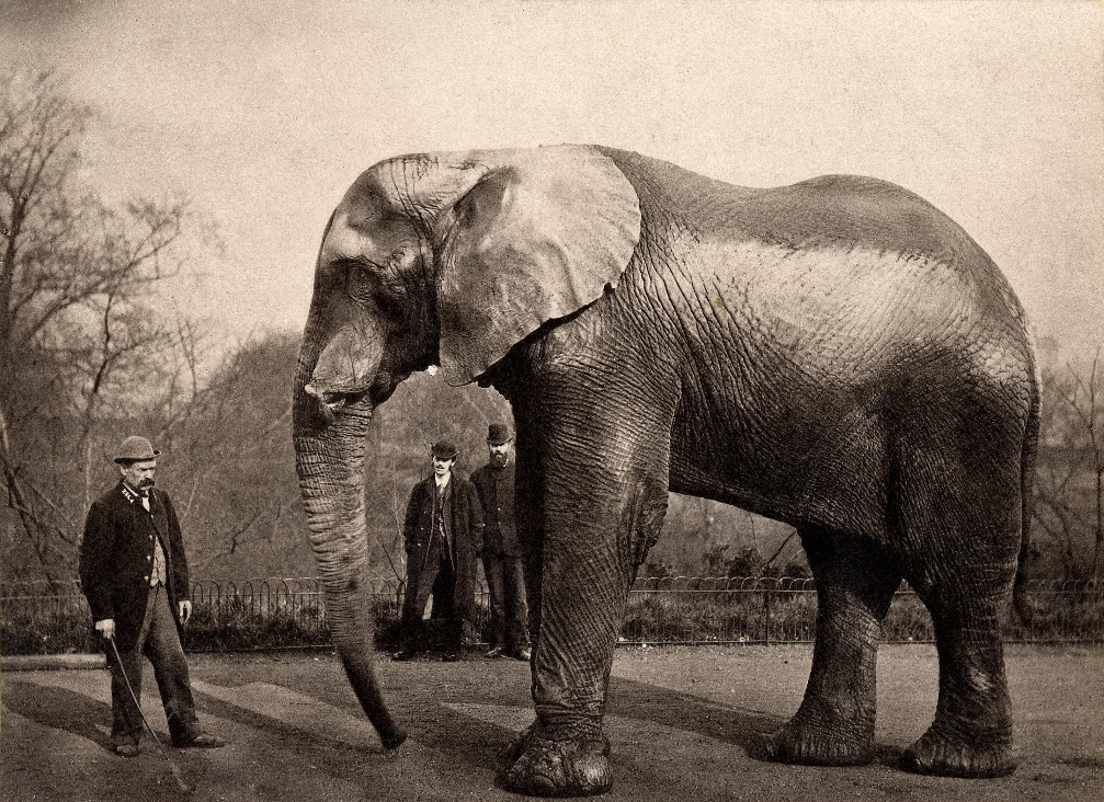 Jumbo and his keeper Matthew Scott